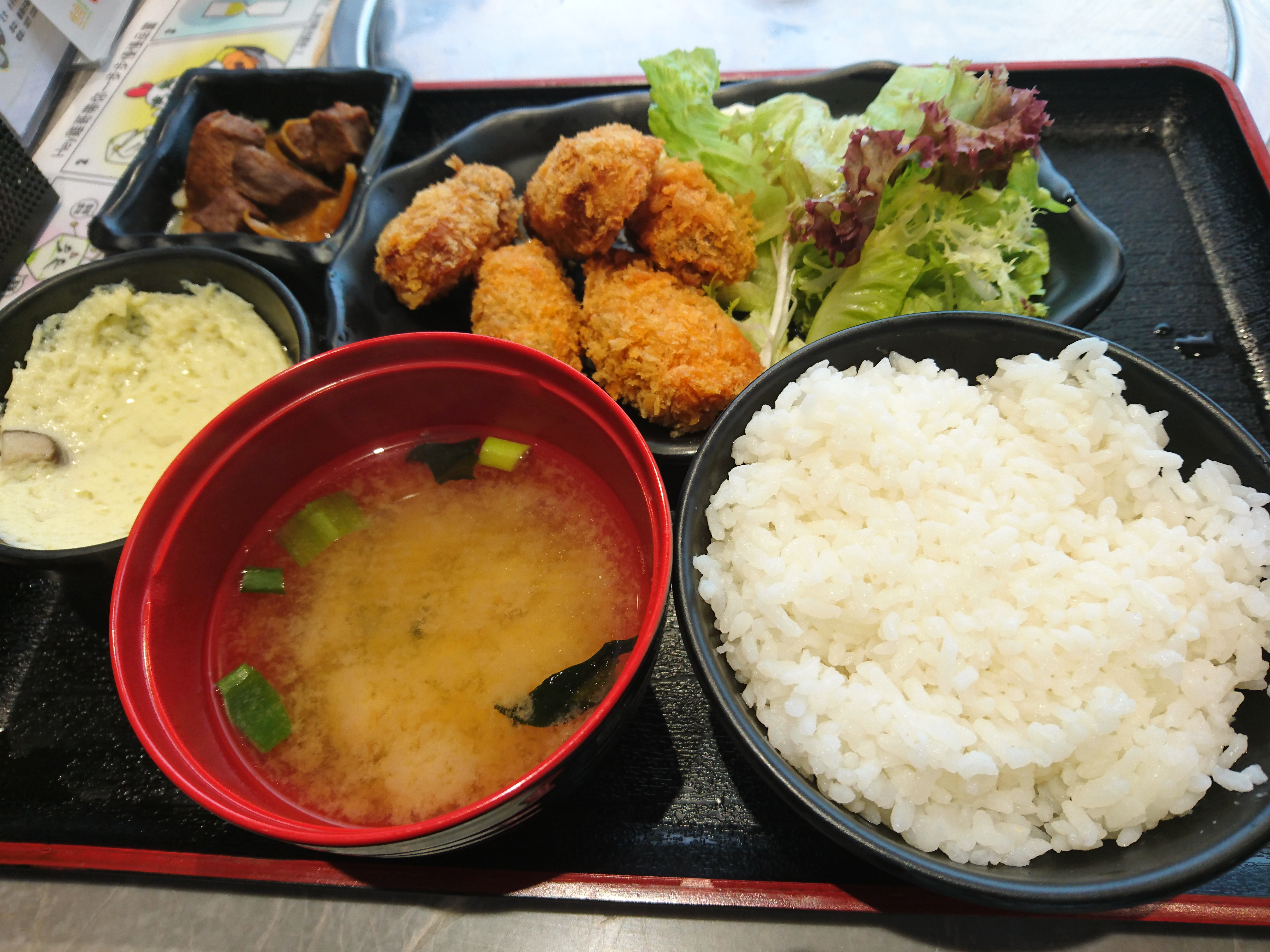 Japanese Meal Set in Hong Kong